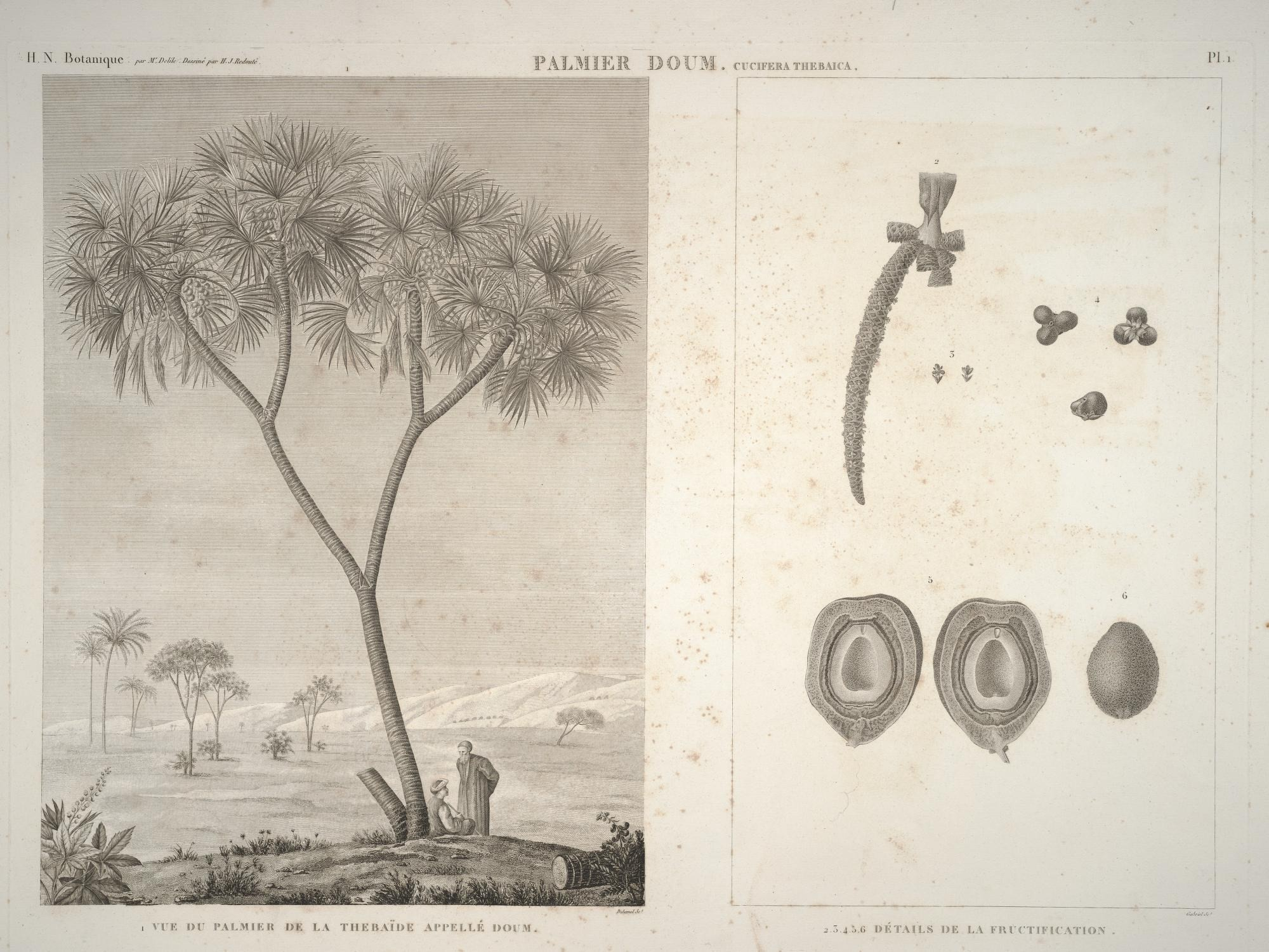 H. IN. BotaniOUe - f.arM:j)r/,fc' De..^mê ^arjr.JJleJoutc CiTCÏFEMÂ TÏIEBAICÂ PL '.4- ^.i m y V m •m I VUE nv FAi.MIKïl ilE LA TllEIIAIÏIE Ai'PELLE IIOTM 2.0.4.0.6 ilETAîLS DE LA FSI LCTIFICATION